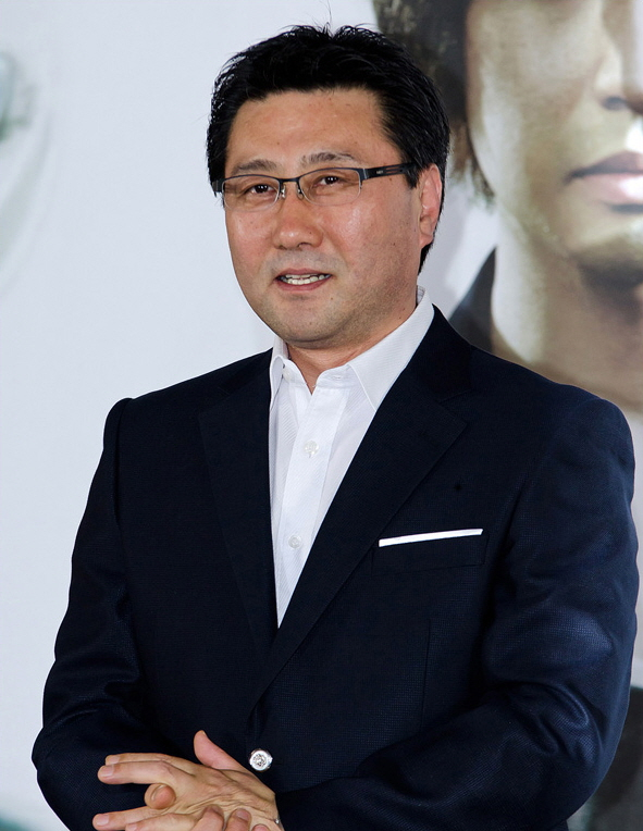 Choi Jeong-woo in June 2011